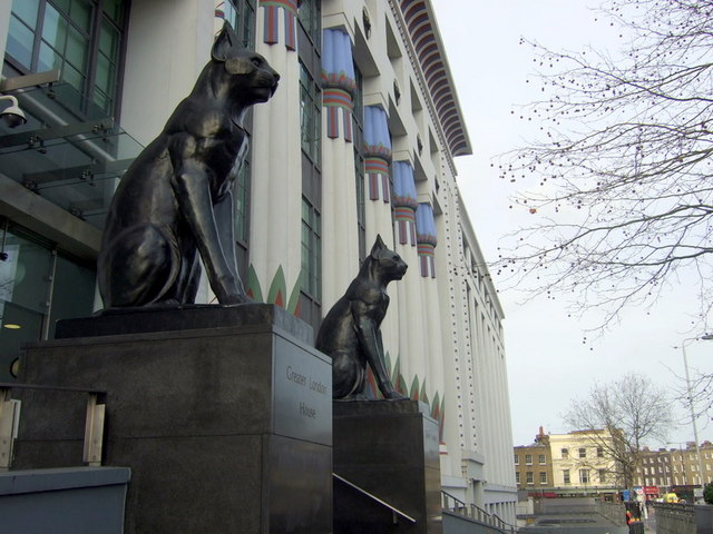 The biggest cats in London! The Egyptianate decoration of the front of this building, originally the Carreras cigarette factory, was inspired by the discovery of Tutankhamun's tomb in the 1920. Also found was the temple at Bubastis of the cat-headed goddess Bast or Bastet. The Carreras company logo had been a black cat ever since 1886 after customers at the original tobacconist's in Wardour Street grew accustomed to the sight of the shop cat curled up in the window. In 1904 Black Cat cigarettes was introduced as one of the first machine-made cigarettes manufactured in Britain and the company used the symbol in a great deal of promotional material.